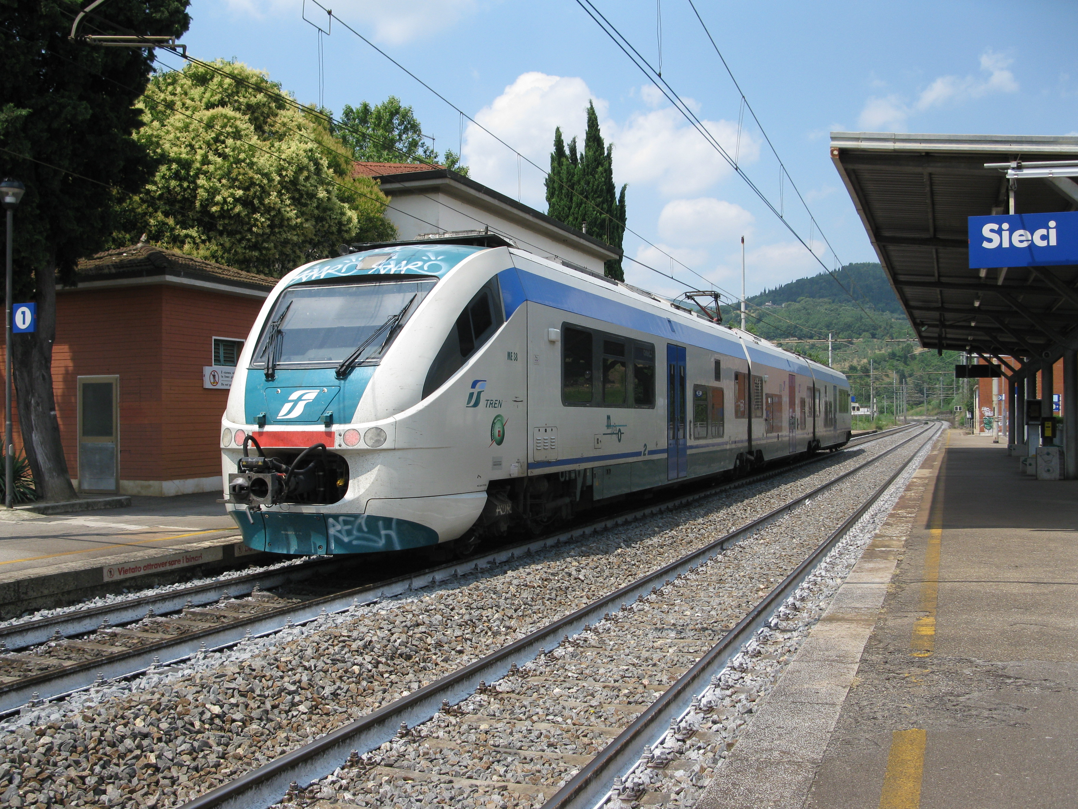 Minuetto train on platform 1